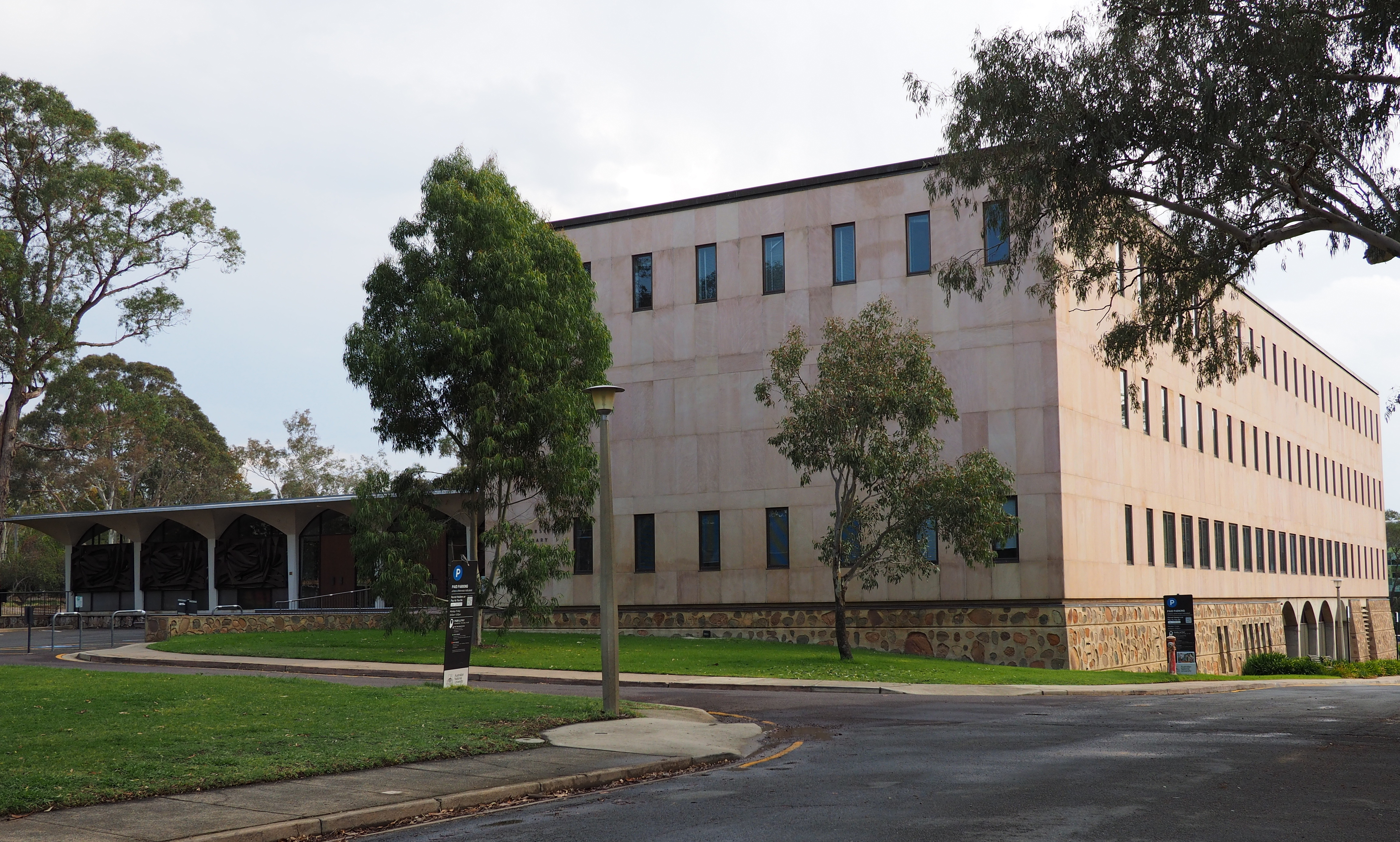 The western face, and entrance, of the Menzies Library